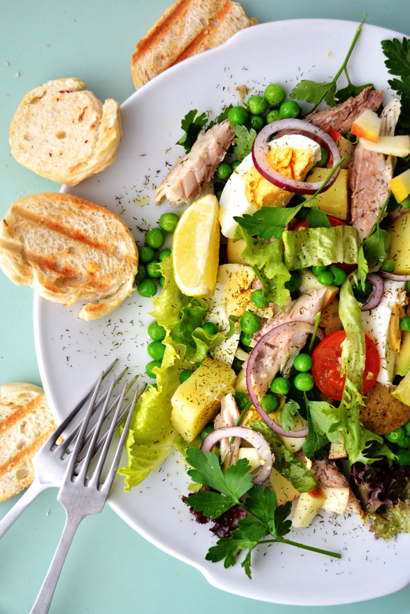 I made this photo for a recipe blog post on how to make a mackerel and apple salad: You can use it, but please link back to the original blog post. Thanx!